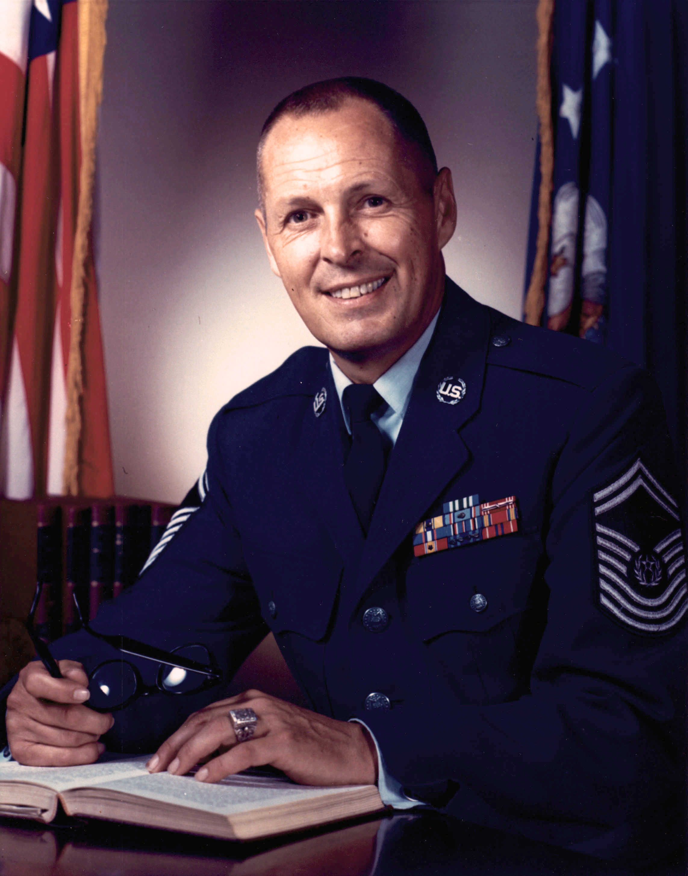 Donald L. Harlow. Second CMSAF.